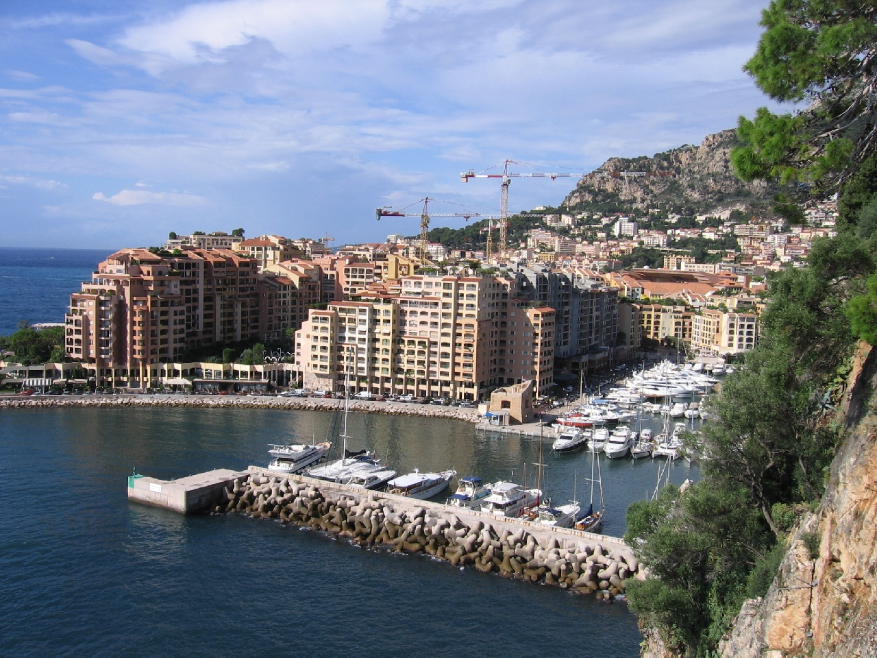 Fontvieille, part of Monaco